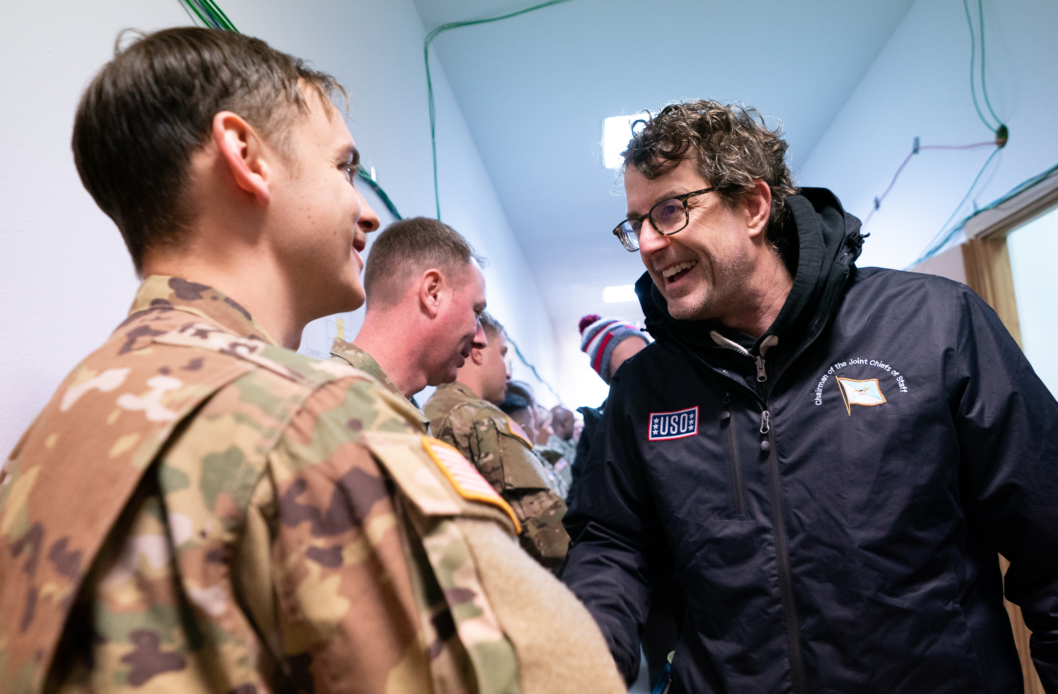 USO Talent greet U.S. Army Soldiers from 4th Battalion, 3rd Aviation Regiment, before a flight brief and UH-60 helicopter tours as part of the Chairman's USO New Year's Tour 2020, at Mihail Kognalniceanu Air Base, Romania, Jan. 7, 2020. Vice Chairman of the Joint Chiefs of Staff Gen. John E. Hyten and Senior Enlisted Advisor to the Chairman Ramon "CZ" Colon-Lopez host the Chairman's USO Tour on behalf of Chairman of the Joint Chiefs of Staff Gen. Mark A. Milley to bring Washington Nationals Aaron Barrett and Adam Eaton, comedians Scott Armstrong and Matt Walsh, actor Brad Morris, country music band LoCash, MMA Fighters Illima-Lei Macfarlane and Felice Herrig; and DJ J Dayz to show service members in the U.S. European area of responsibility that America remembers them and values their service. (DoD Photo by U.S. Army Sgt. James K. McCann)